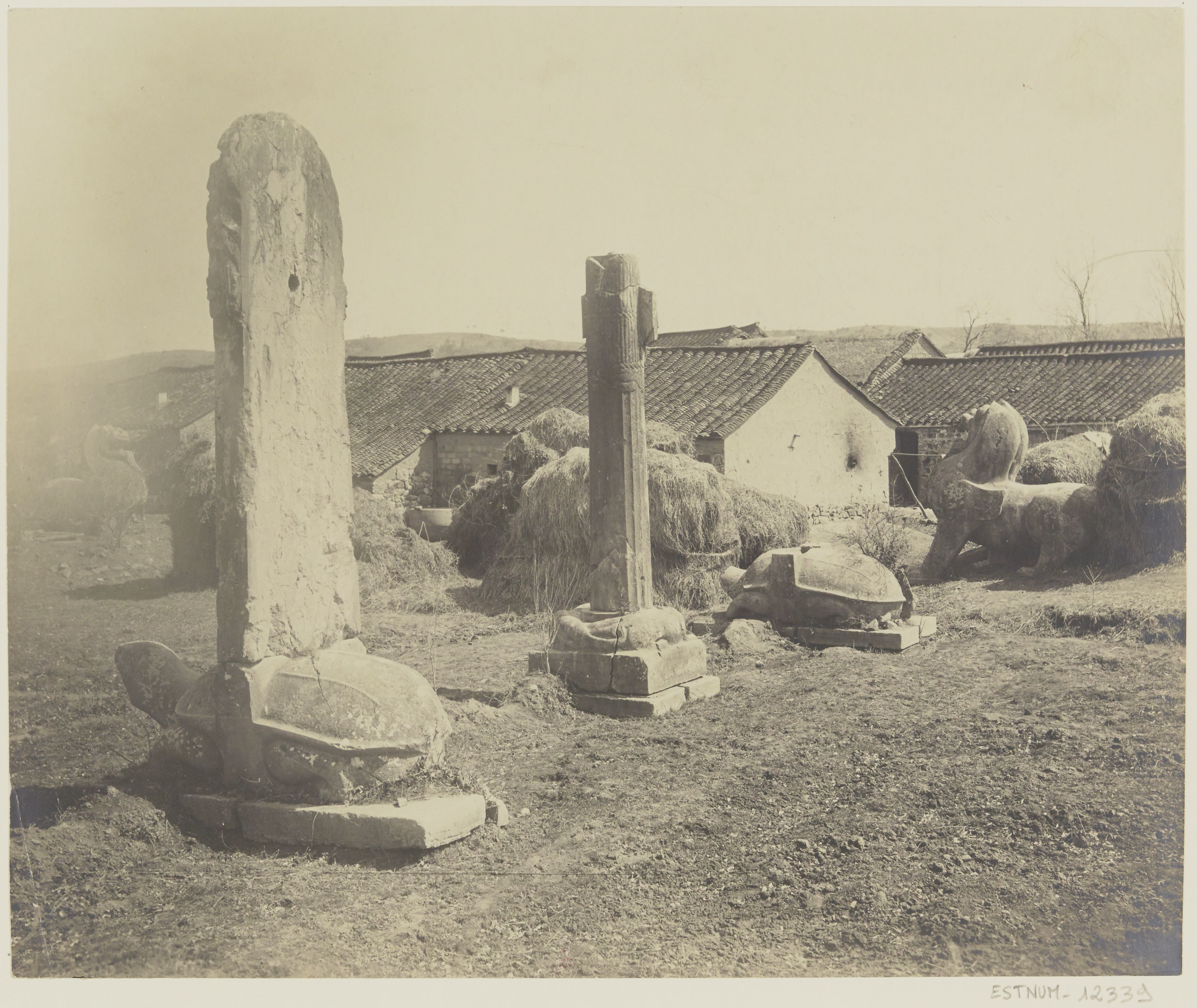 The ensemble of Xiao Xiu Tomb statuary, as seen by Victor Segalen in 1917. Includes bixi-supported stelae and fluted columns.